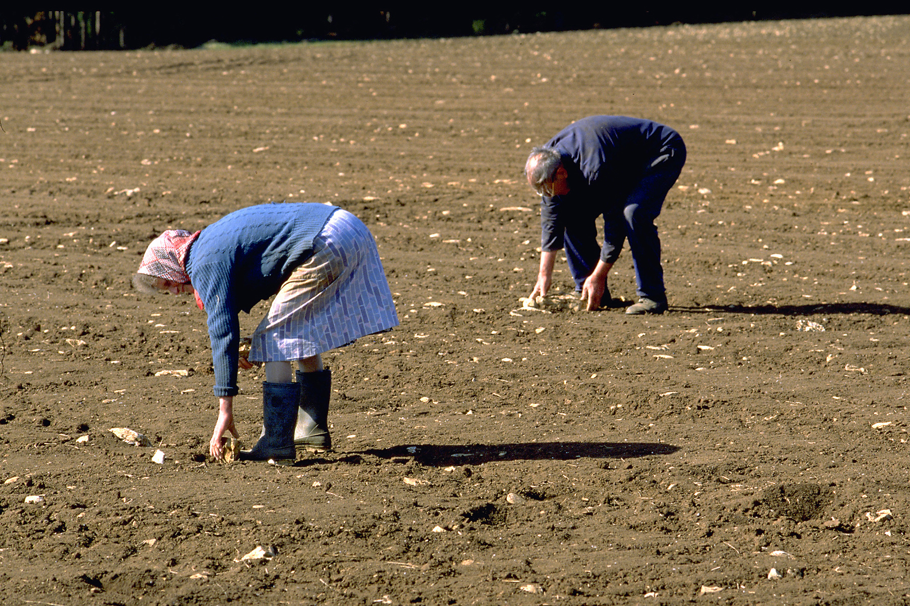 Field in Westerheim Swabian Alb in springtime. The field area is huge as it is normal after land consolidation. After all bigger limestones have been collected and disposed off, the old couple do a second, burdensome collection. Such operations obviously belong to a generation of peasantry, which will fade away…